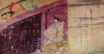 Part of the Murasaki Shikibu Diary Emaki. The text and painting correspond to the third scene (第3段絵,第3段詞) of the Hinohara (日野原); the former Hisamatsu edition (旧久松家本). The scene depicted shows Fujiwara no Michinaga visiting Murasaki Shikibu in the night, knocking on her door.